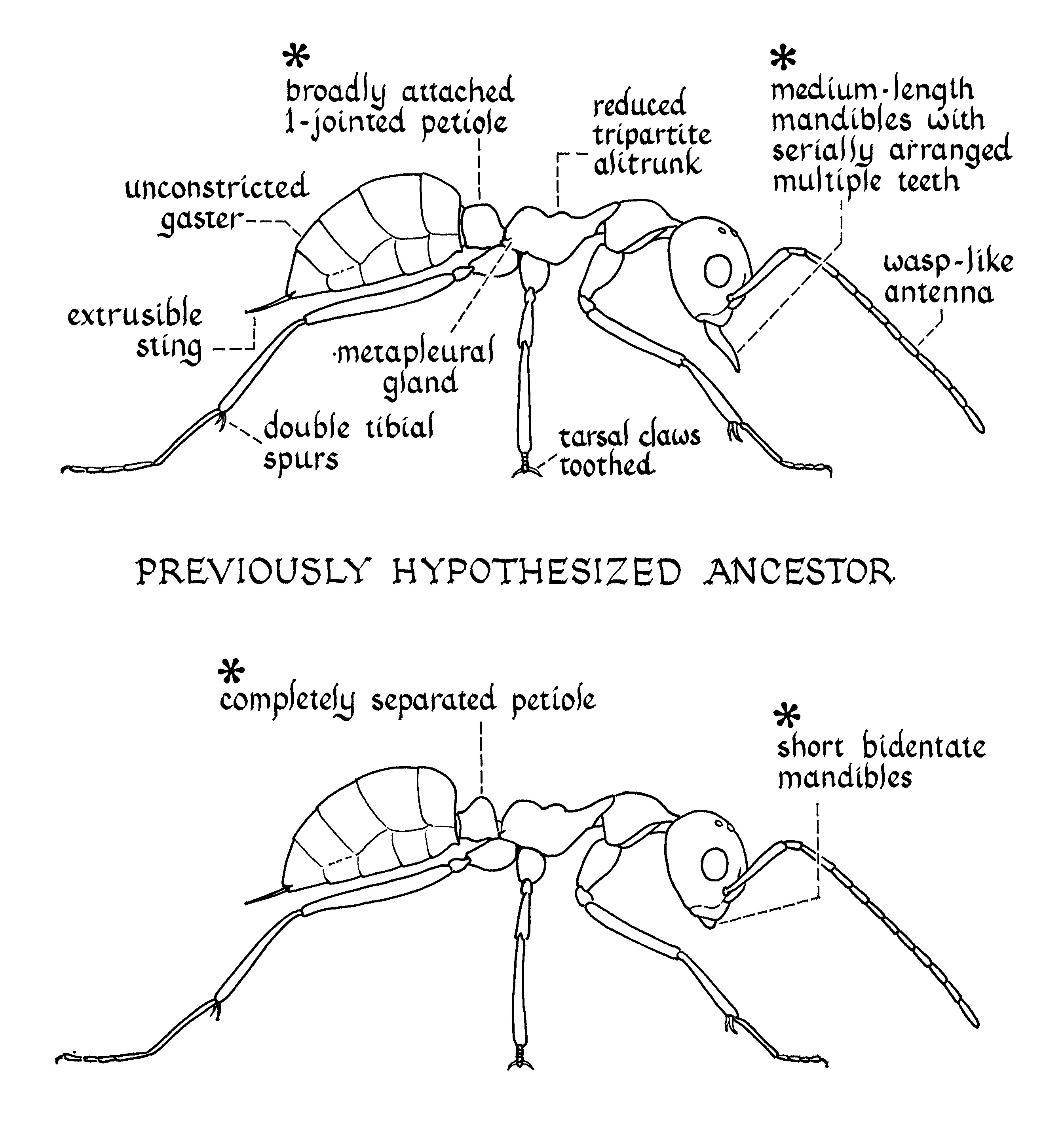 A comparison of the archetypal ant as hypothesized by the authors before the discovery of Sphecomyrma (e.g., Brown, 1954; Brown and Wilson, 1959), with Sphecomyrma itself. The fine details of body shape are made the same in this drawing for convenience but do not enter into the main features to which phylogenetic speculation has been directed. This comparison is presented to indicate the degree of precision of earlier phylogenetic reasoning. Examination o the Sphecomyrma specimens proved the hypothesis wrong in essentially only one major respect: we had guessed that an ant-like mandible developed before an ant-like petiole, but the reverse proved to be the case.